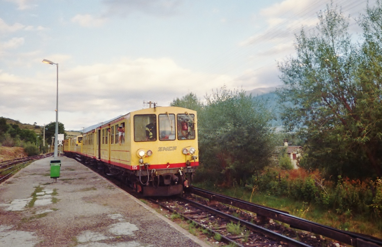 Arrival of the regional Yellow train at city of Font-Romeu railway station, in Pyrénées-Orientales (French Eastern Pyrenees).